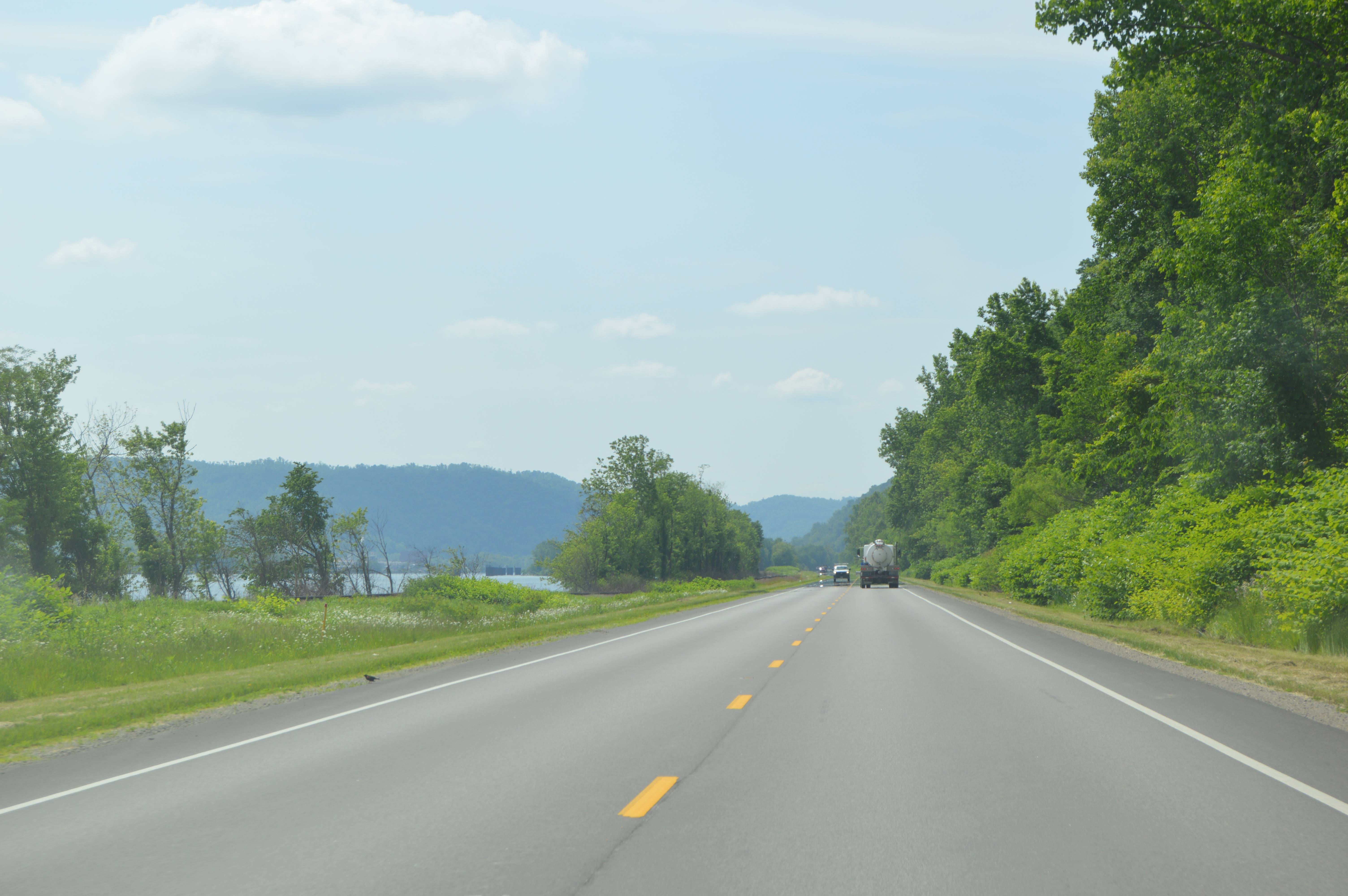 Woods and the Ohio River seen looking south from State Route 7 south of Clarington in Salem Township, Monroe County, Ohio, United States. The hills in the distance are part of Marshall County, West Virginia.